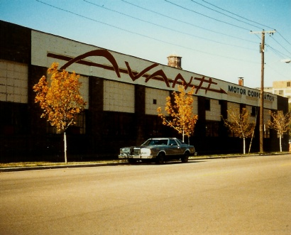 The Avanti Motor Corporation, South Bend, Indiana